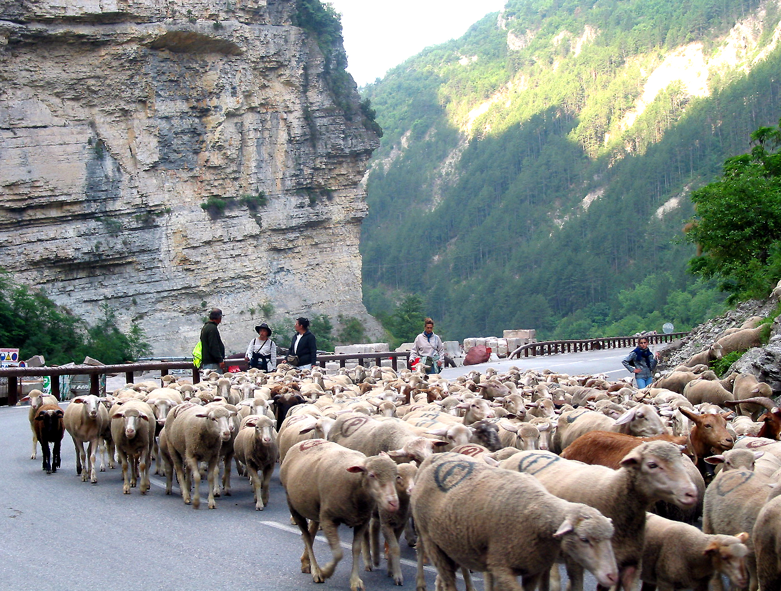 Rigaud, Alpes-Maritimes (France), the Transhumance in the gorges du Cians.